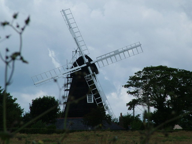 Photograph of Ripple Mill under restoration